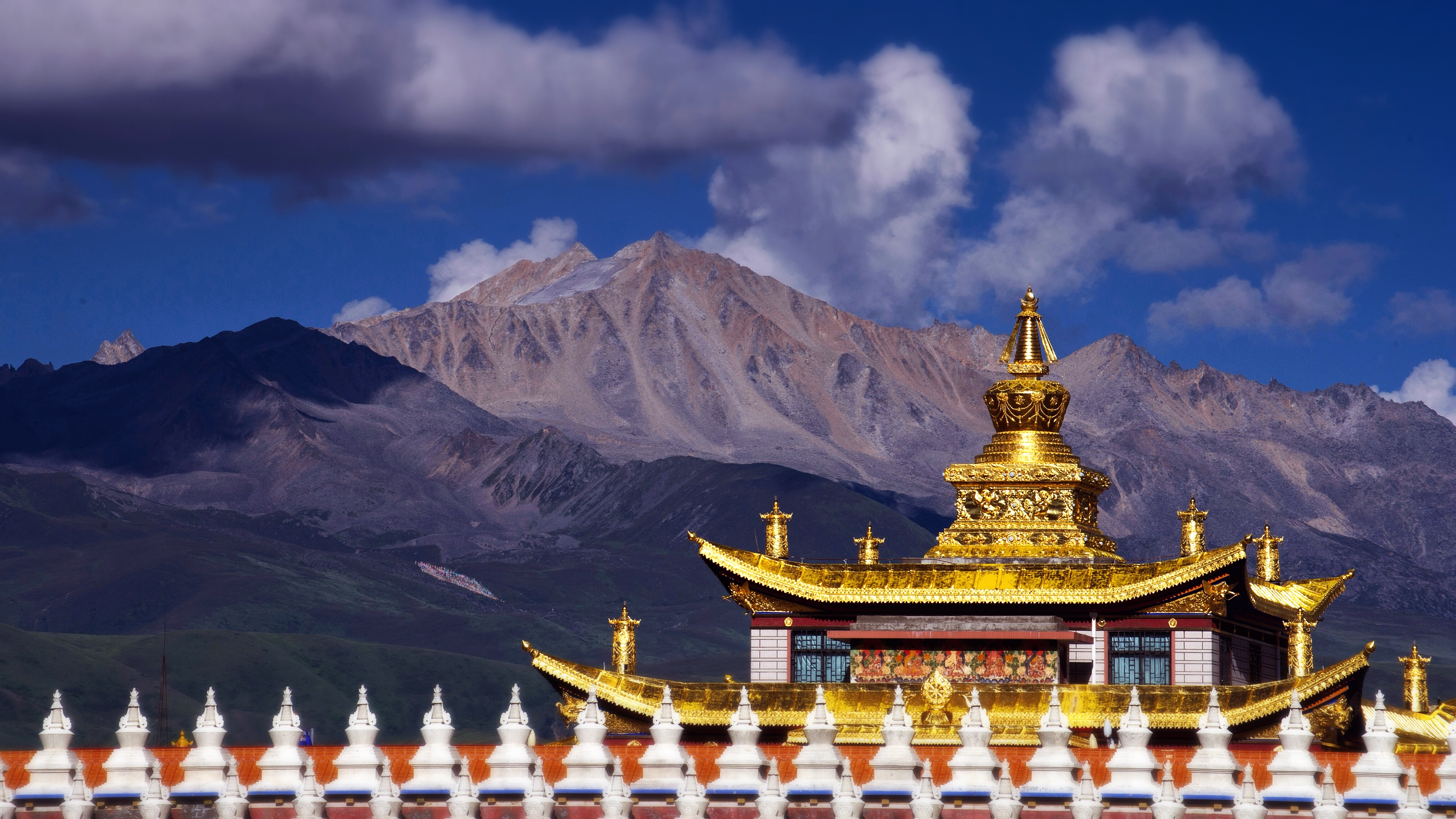 Muya Golden Pagoda at Garzê Tibetan Autonomous Prefecture, Sichuan Province